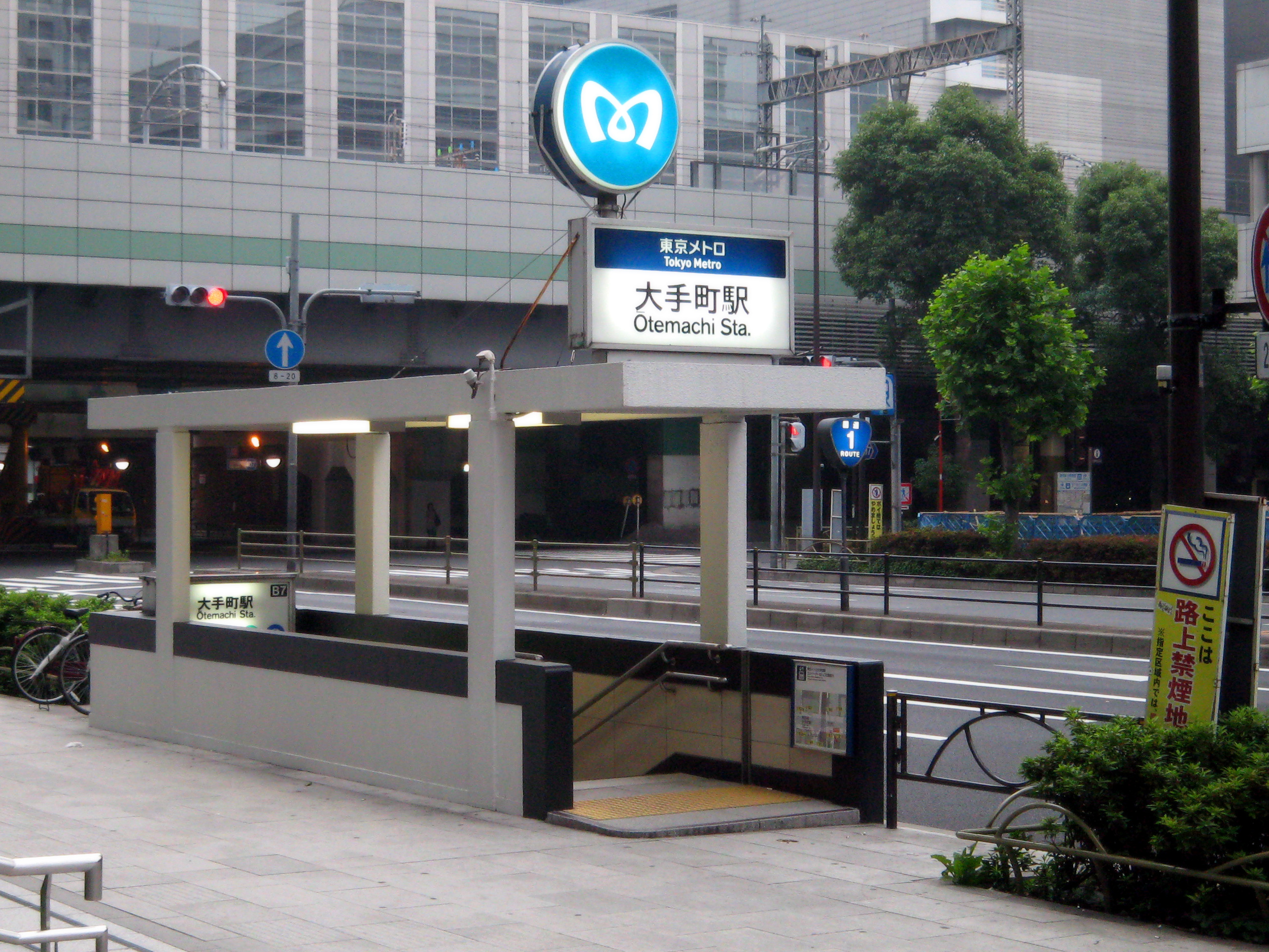 Entrance B7 to Otemachi Station in Tokyo